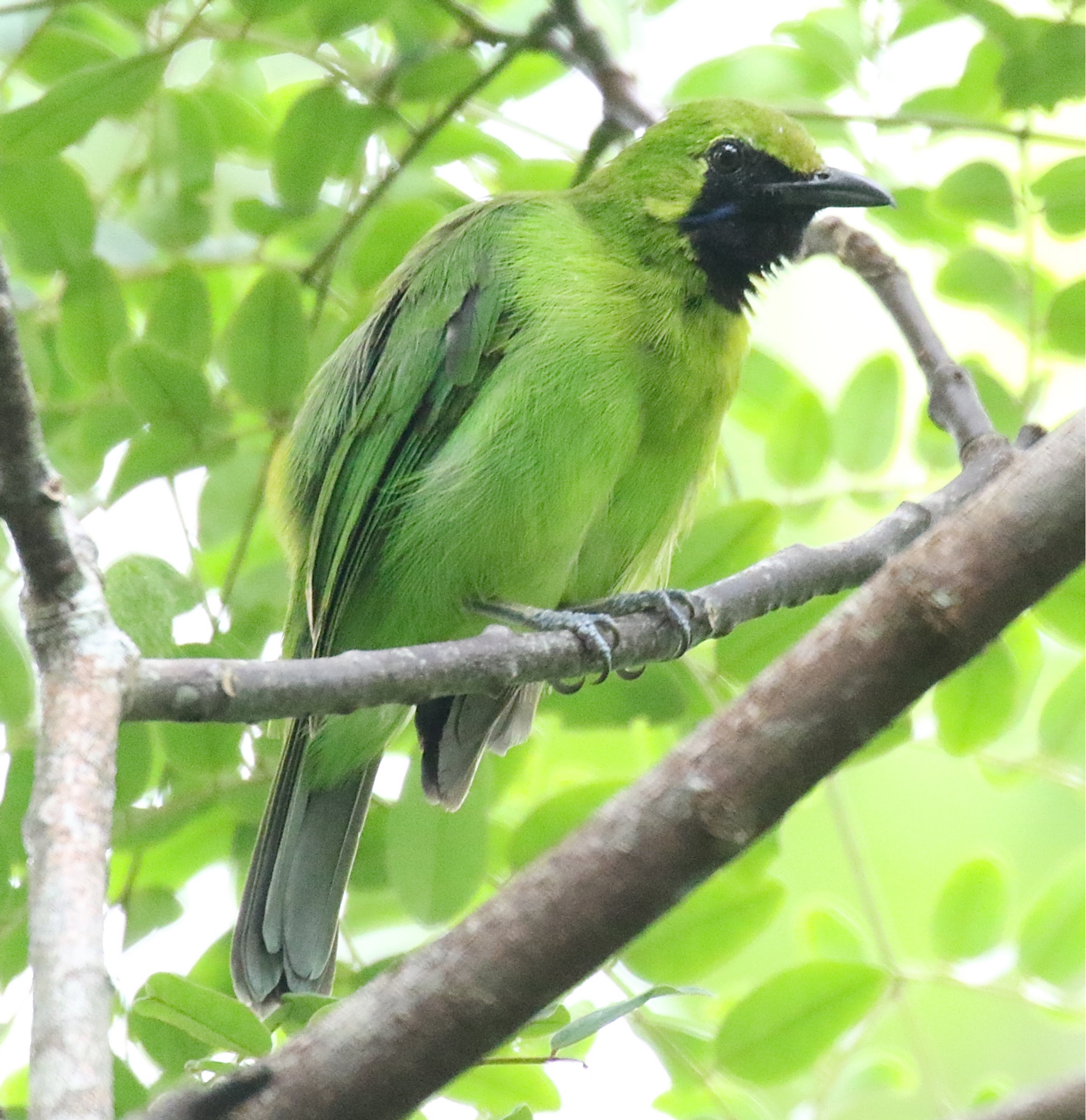 Sepilok Nature Resort Sabah, Borneo - Malaysia